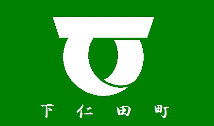 Flag of Shimonita Gunma